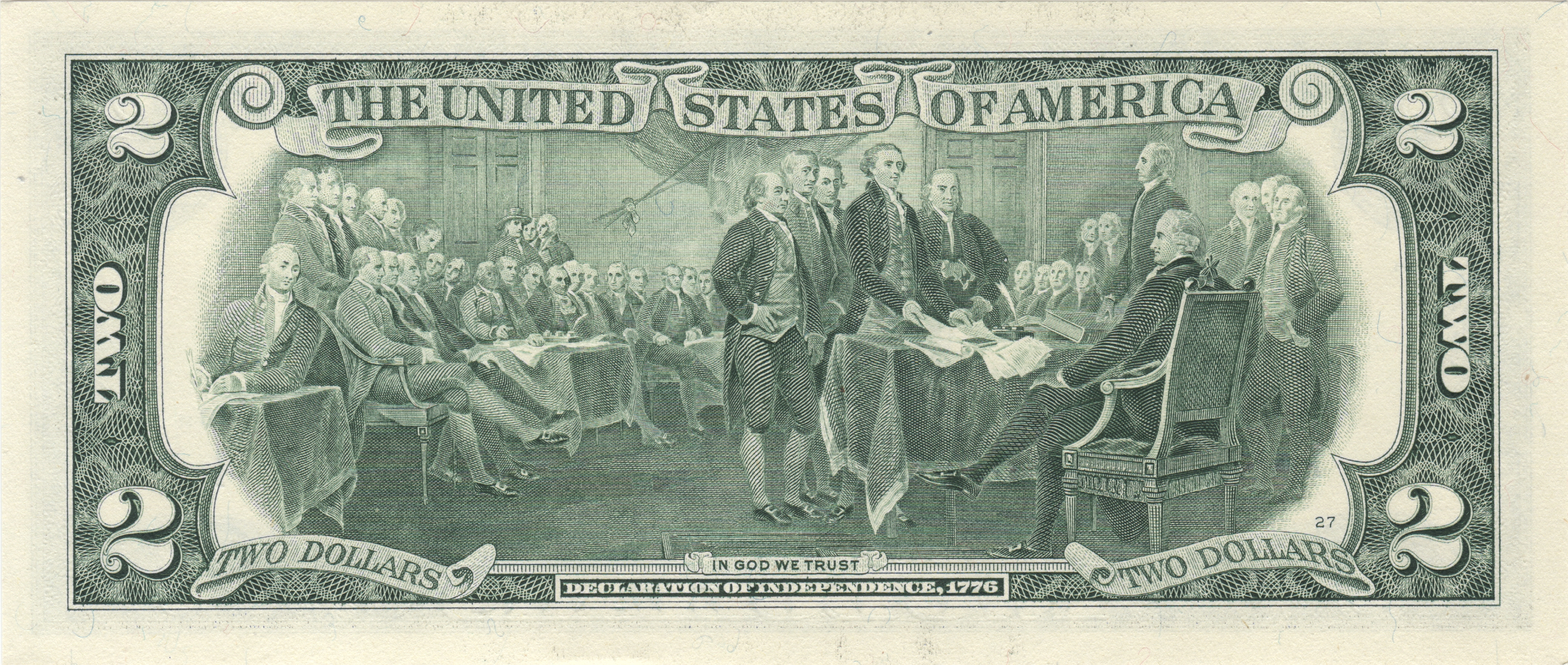 Image of U.S. two dollar bill.